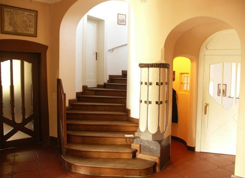 main staircase in the Fischel house at Kiel; architect: Richard Riemerschmid